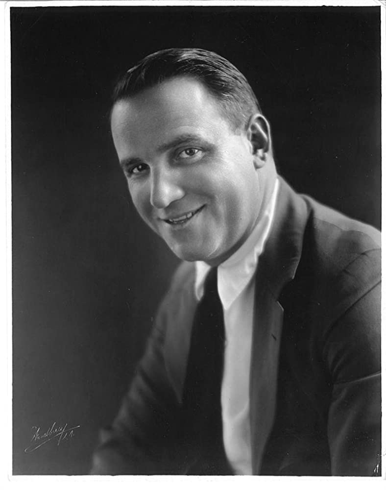 Director Allan Dwan, on page 64 of the September 25, 1920 Exhibitors Herald.